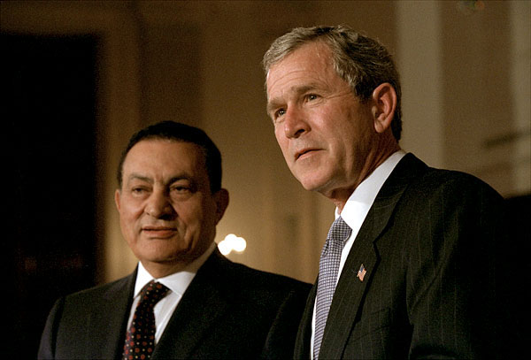 President George W. Bush and Egyptian President Mohammed Hosni Mubarak address the media in Cross Hall at the White House March 5. "We talked extensively today about our efforts," said President Bush of their private discussions. "President Mubarak has a long history of advancing peace and stability in the Middle East." White House photo by Eric Draper.